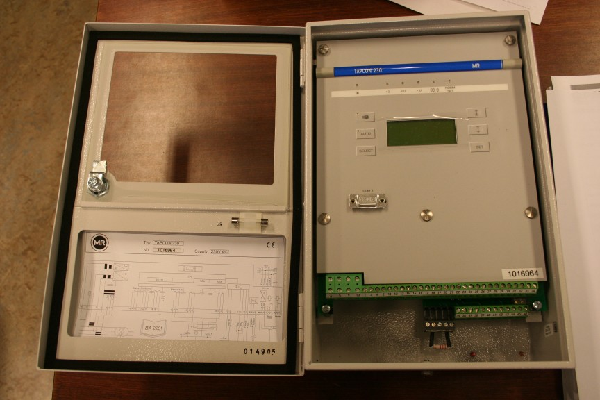 Automatic voltage regulator, Tapcon 230 from Reinhausen.